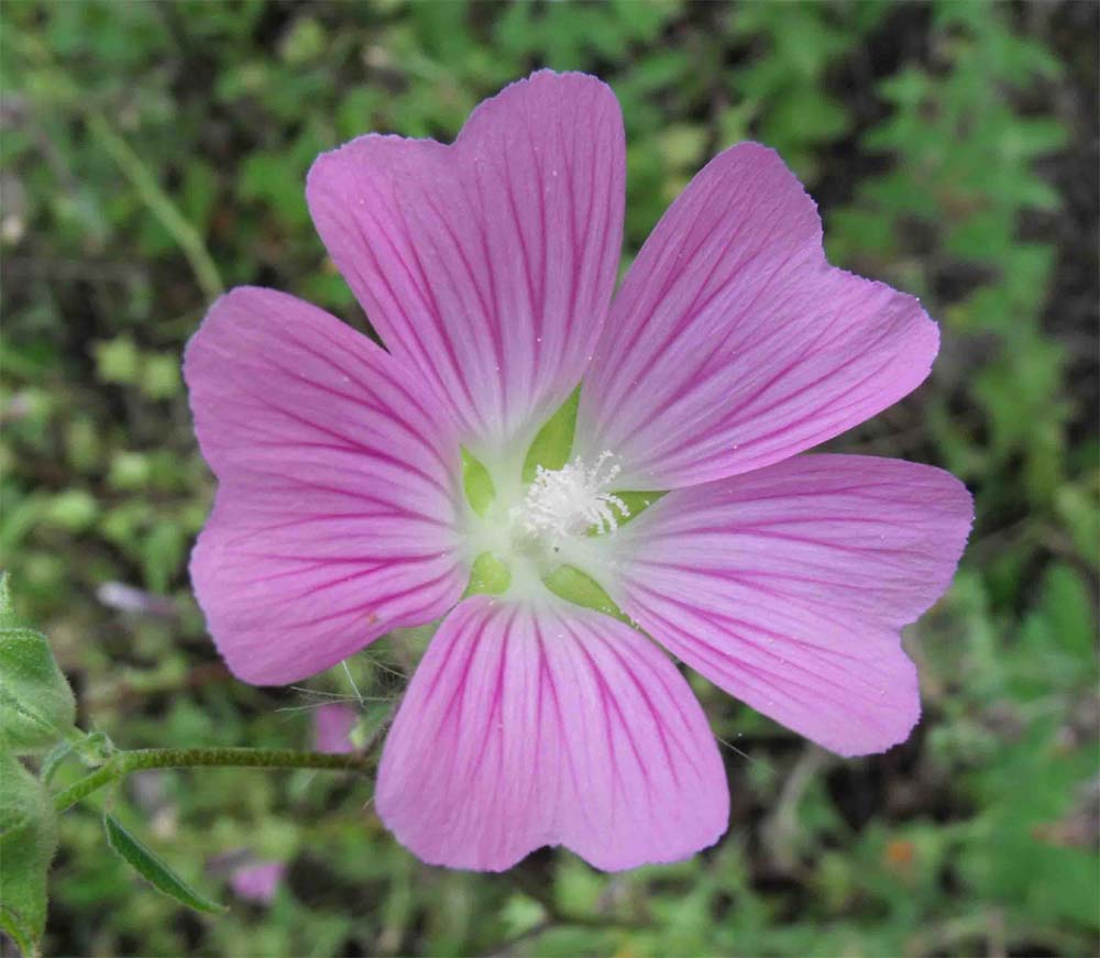 Flower of Lavatera punctata photographed in Tuscany, central Italy.